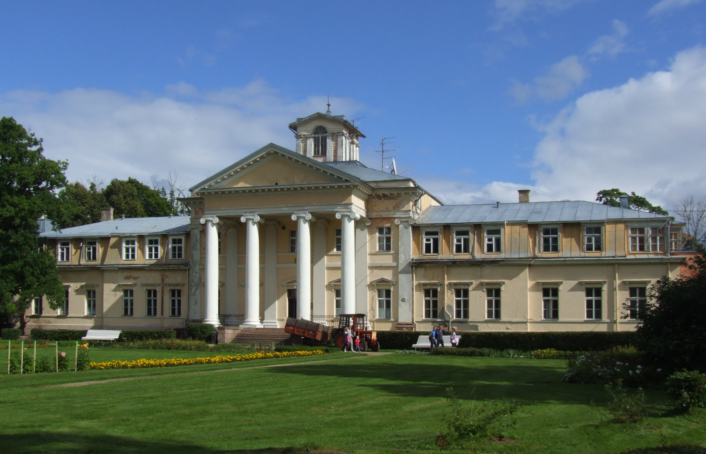 Palace in Krimulda, Latvia